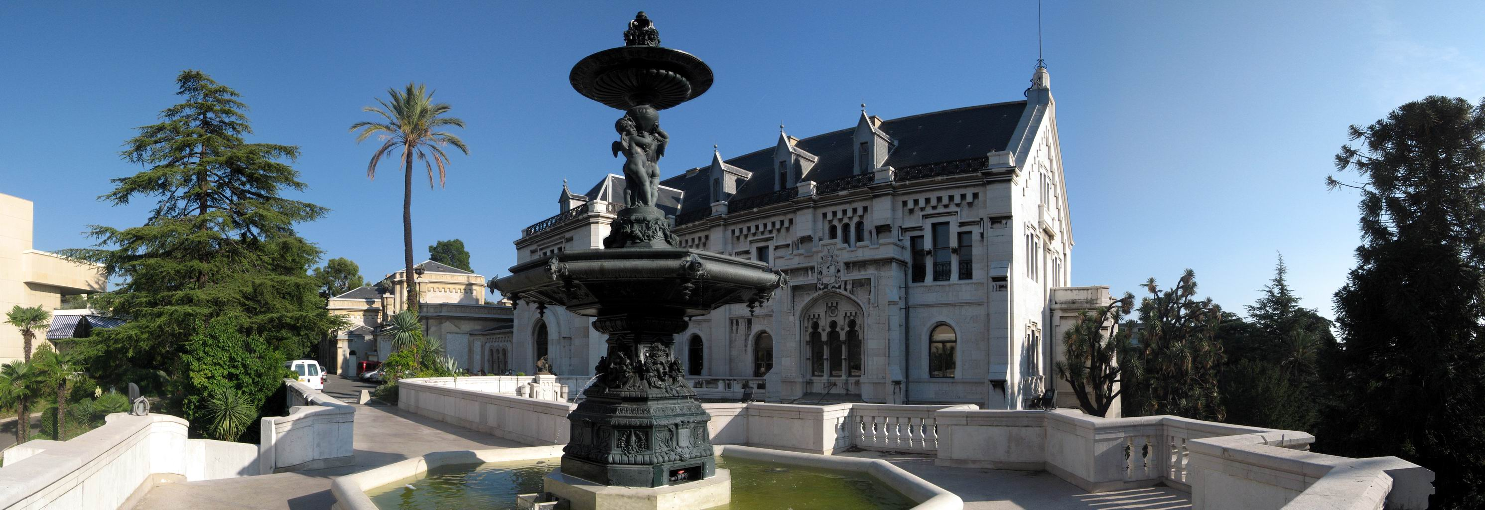 1?Fountain in front of the administration building "Grand Château" of the University of Nice Sophia-Antipolis, Nice, France.